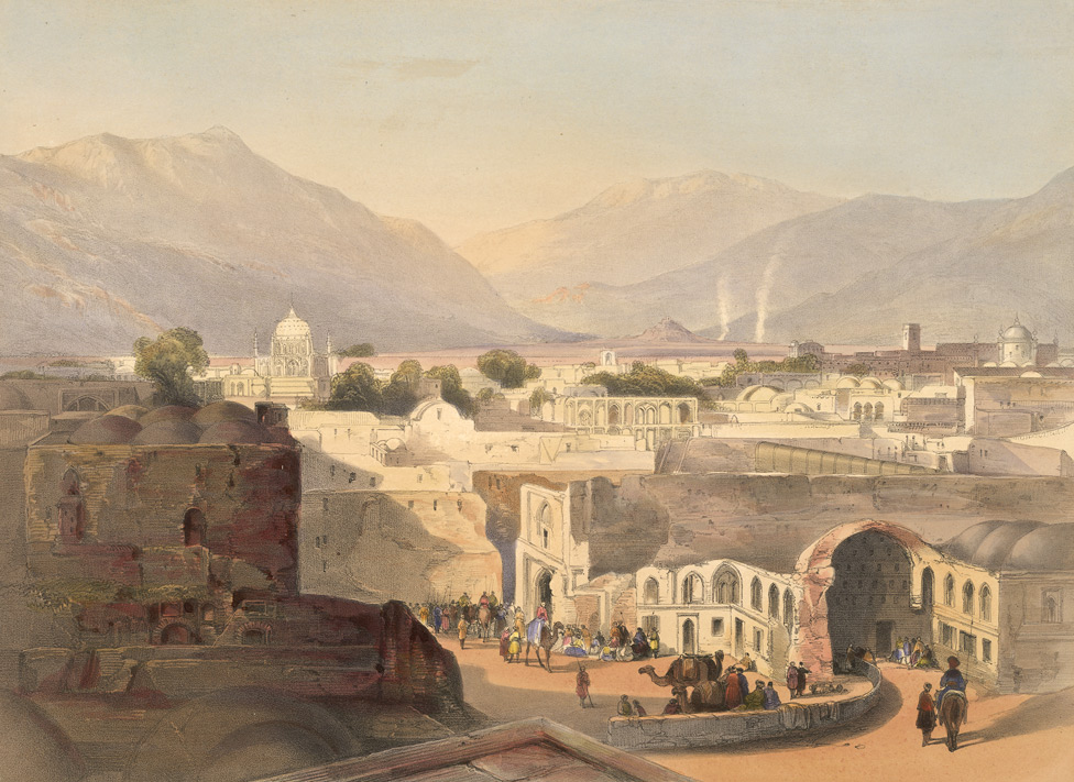 Interior of the City of Kandahar, from the house of Sirdar Meer Dil Khaun This lithograph is taken from plate 23 of 'Afghaunistan' by Lieutenant James Rattray. He sketched Kandahar in December 1841 from the rooftop of the former residence of the province's governor, Sirdar Meer Dil Khaun, who was brother to the Emir. Pictured on the left is the tomb of Ahmed Shah and on the right the Bala Hissar (fort) and citadel. The houses in the foreground were dilapidated due to frequent earthquakes. Afghans believed that ancient Kandahar had been built by Alexander the Great. Rattray's drawing shows the fourth city on the site, built 95 years earlier by Ahmed Shah. Vast ruins of the earlier cities remained. Rattray wrote that Kandahar, a Durrani capital, was situated in a well-cultivated and fertile irrigated plain circled by mountains: "Every hill and building around rejoices in some singular title and each has its legend." The city was oblong-shaped, and its ramparts spanned four miles, inset with six gates. Four main streets forming bazaars ran through it and met in the centre, a point marked with a domed building. Because streams ran through the city, there was plentiful water and foliage. Kandahar was divided into numberless walled divisions, in which each particular clan took up its abode. Among the peoples congregating here were Persians, Uzbegs, Bhaluchs, Hazaras, Jews, Armenians, Hindus, Ghilzais, Durranis and Arabs. The Durranis were the largest and most powerful of these groups, and generally regarded as the most polished and liberal-minded Afghans. The Popalzais, a branch of the Durranis, were superior still, and from them sprang the Saddozis, the sacred royal house of Afghanistan.